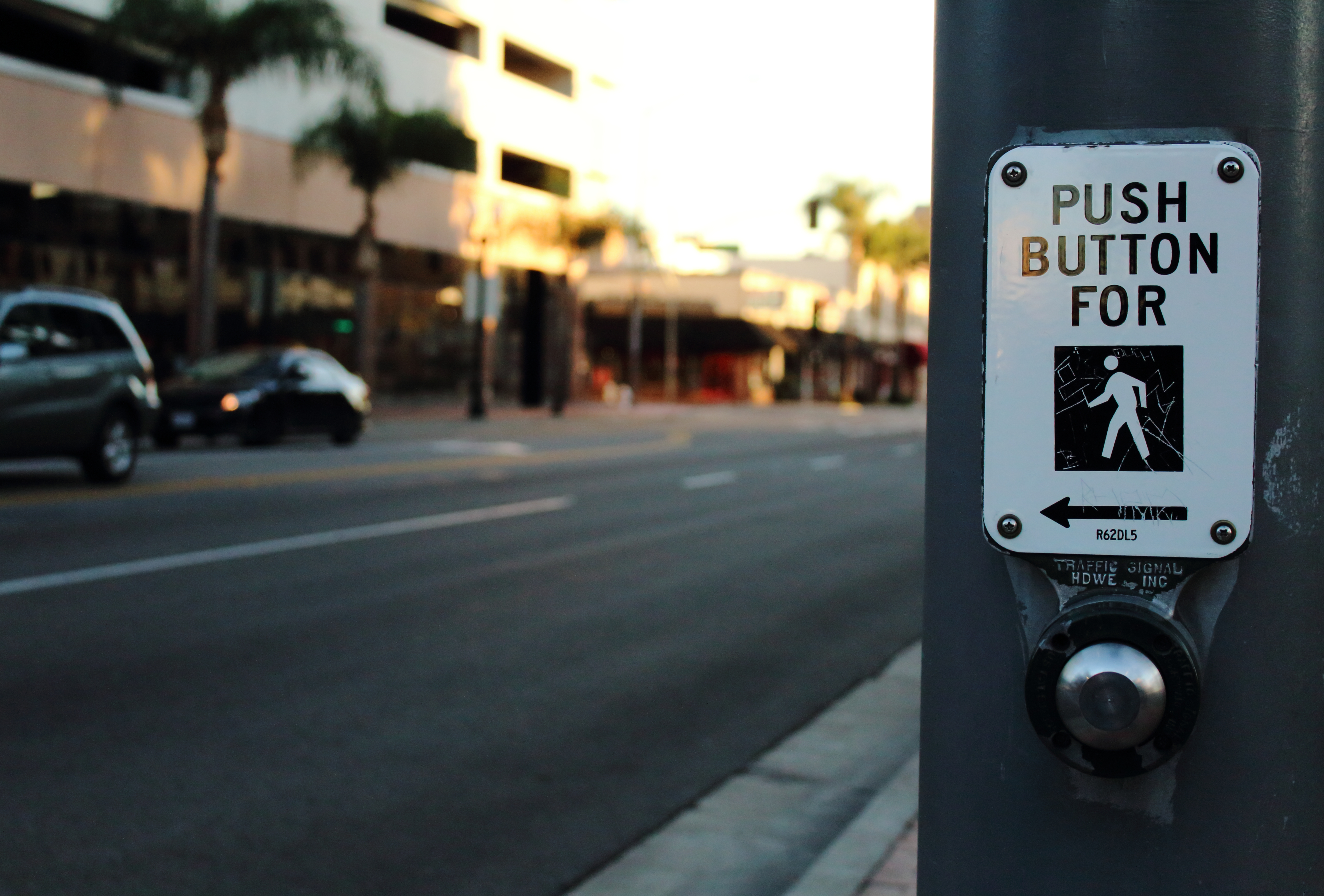 Pedestrian crossing button in Santa Ana, California